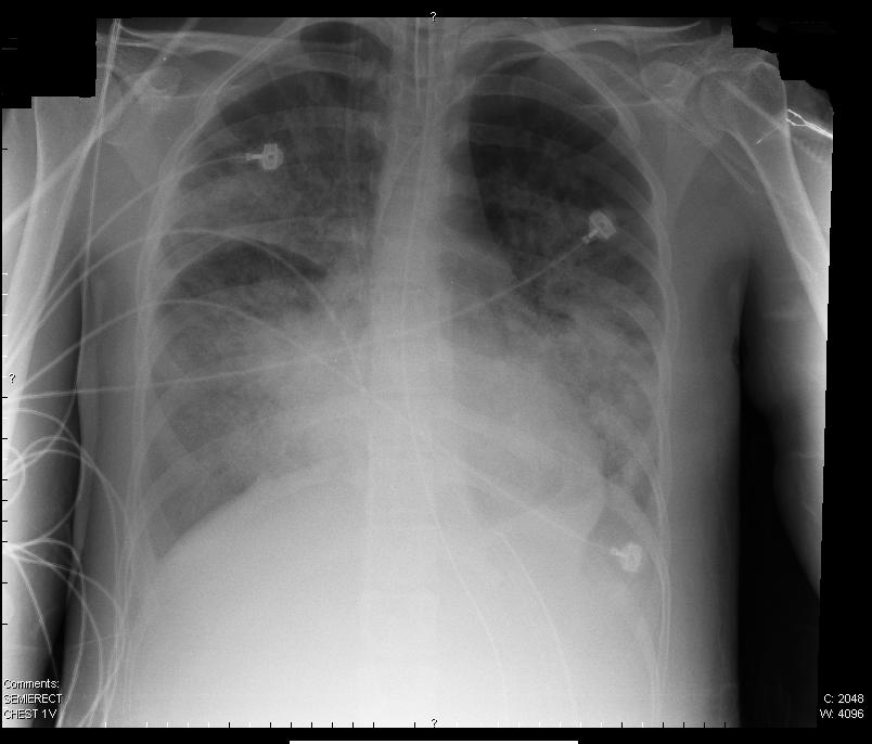 Chest X-ray of a patient with ARDS.